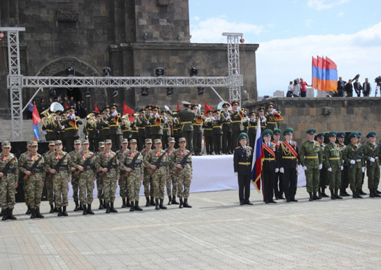 В Армении в День Победы военнослужащие ЮВО приняли участие в торжественных мероприятиях